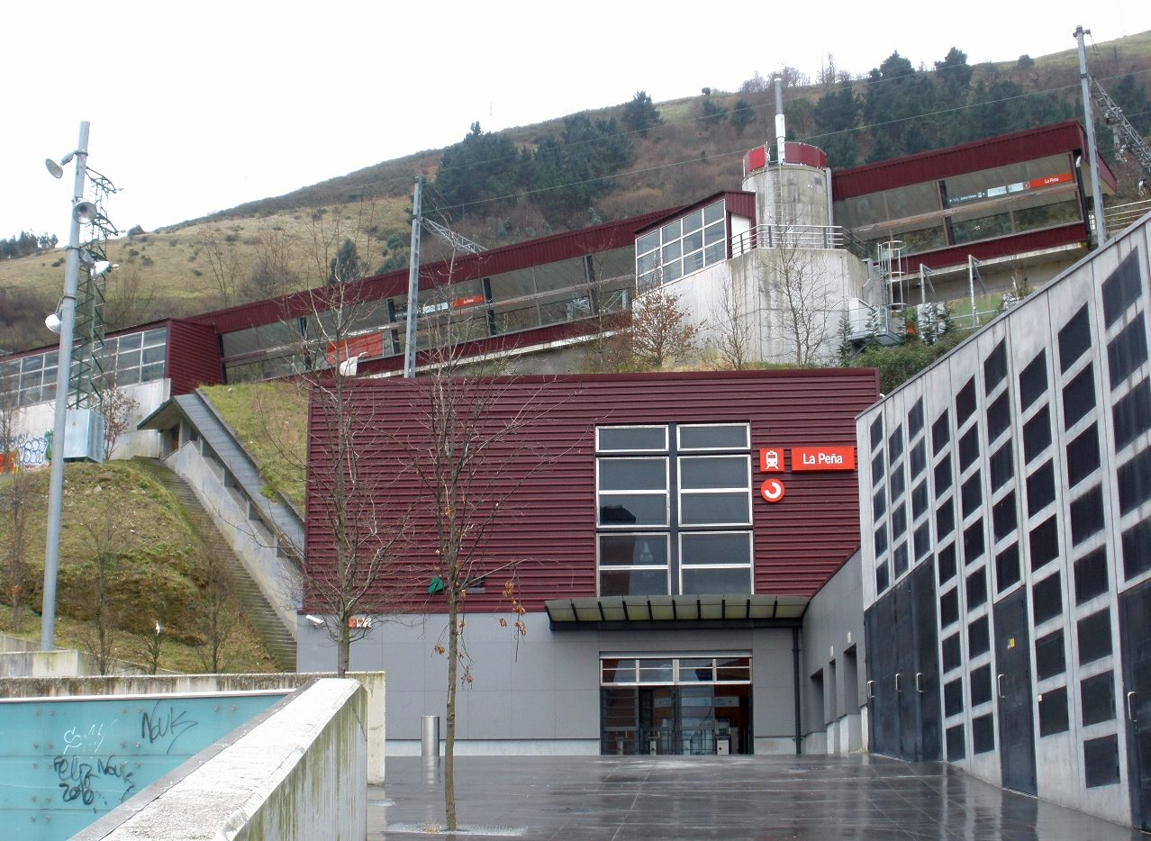 Estación de RENFE Cercanías en La Peña, Bilbao